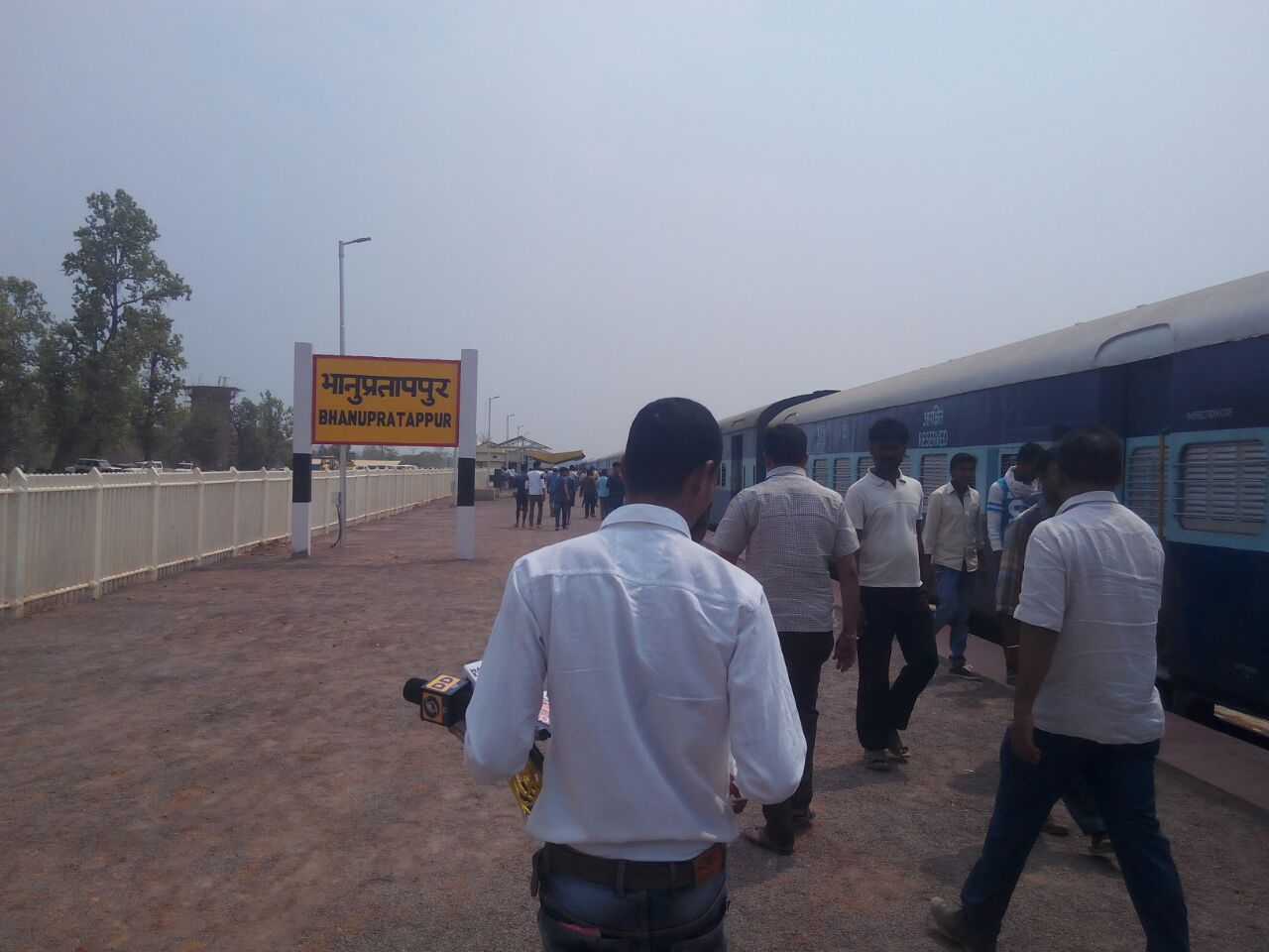 created page